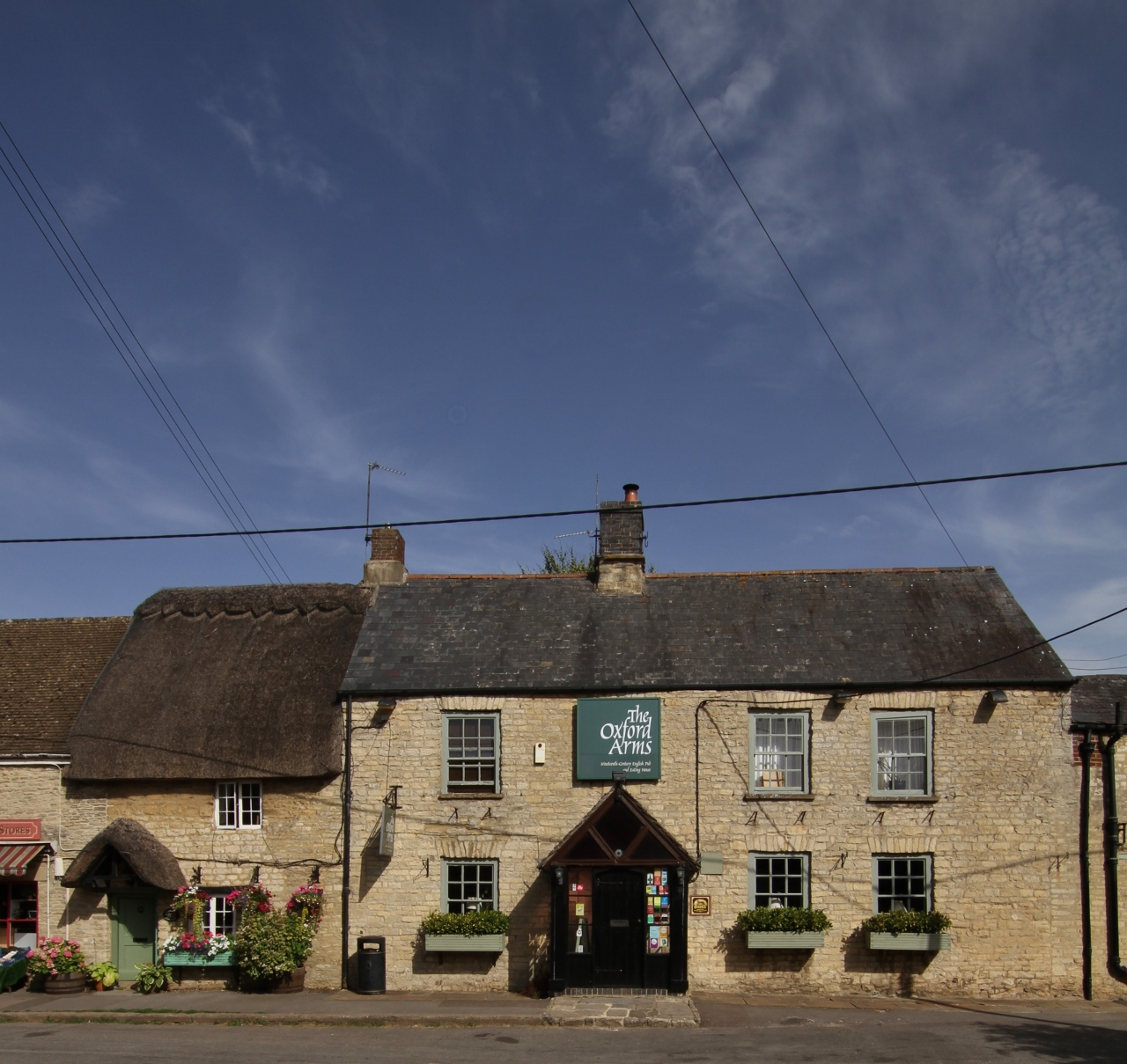 Garden Cottage (left) and the The Oxford Arms (centre and right), Oxford Road, Kirtlington, Oxfordshire, seen from the west